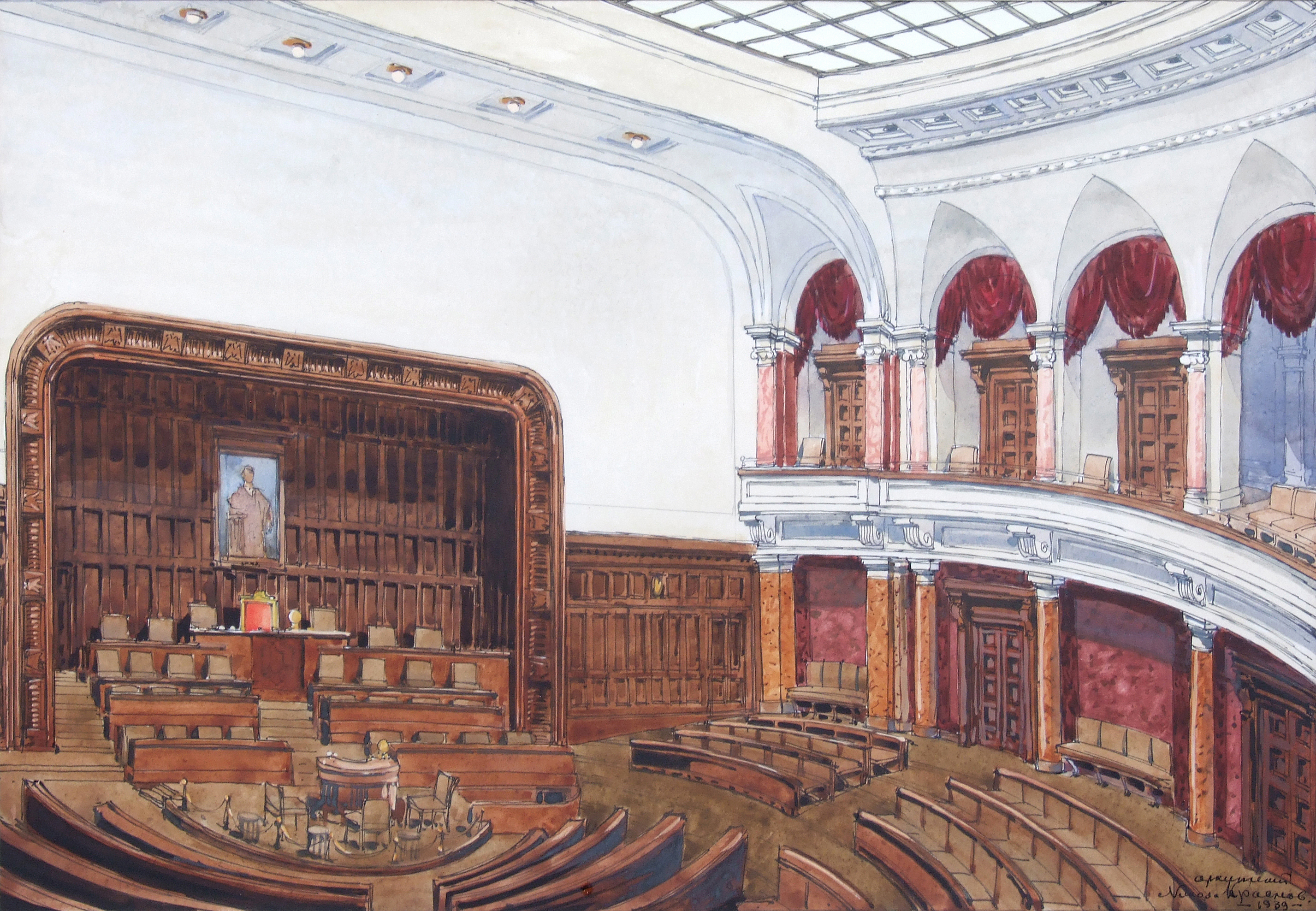 House of the National Assembly of the Republic of Serbia, interior. Projected by architect Nikolaj Krasnov.